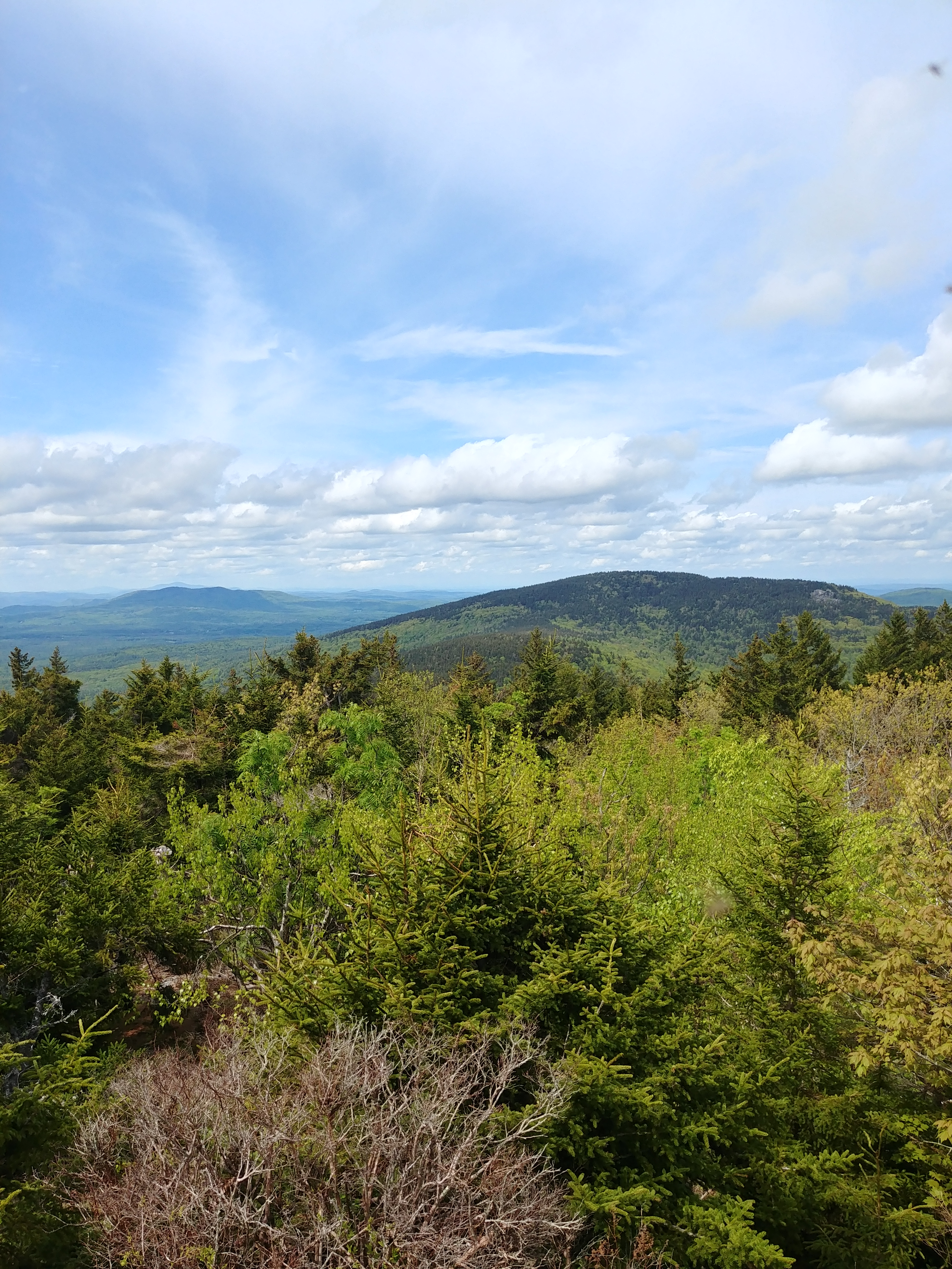 View of the mountain